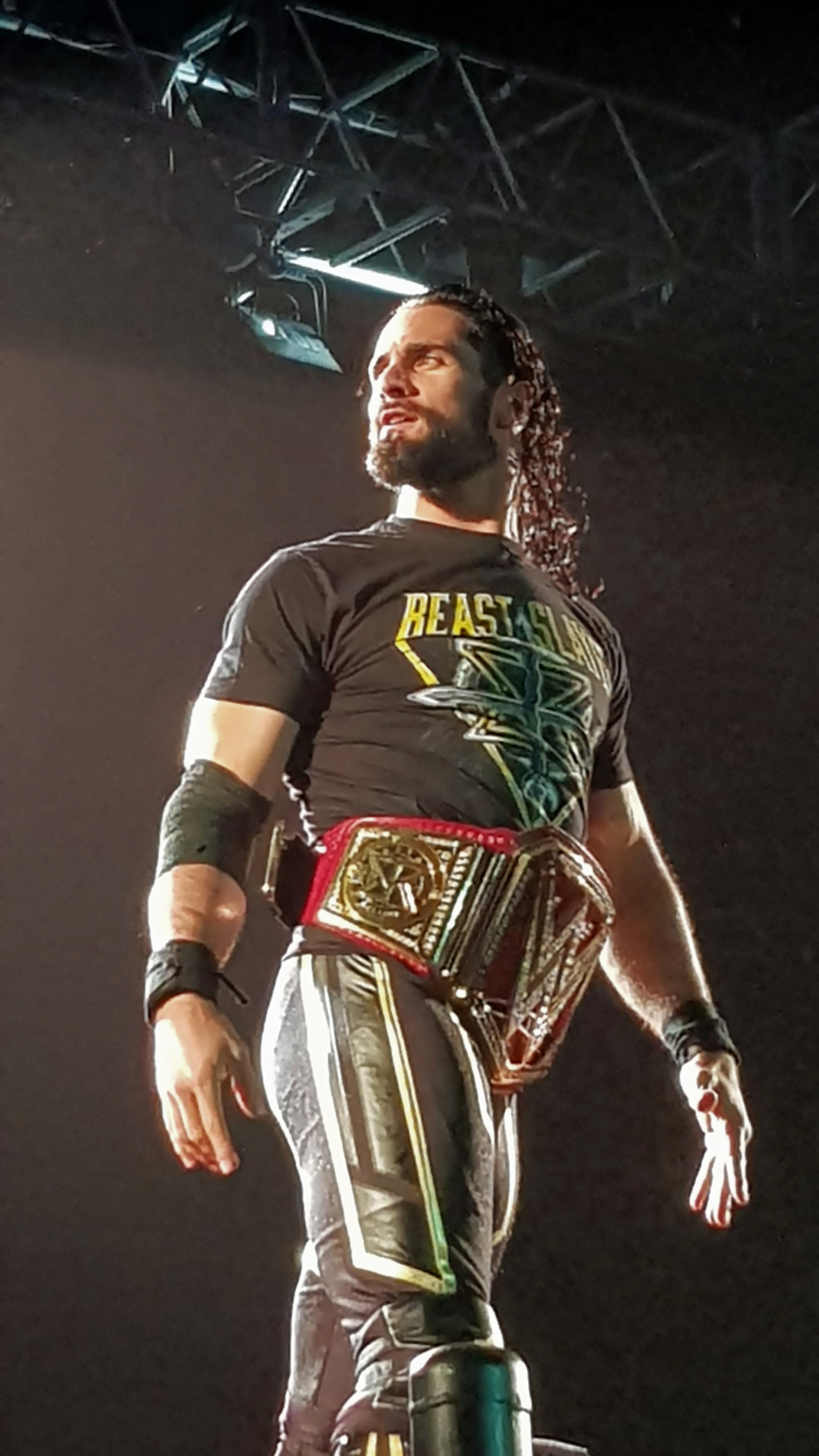 This picture shows wrestler Seth Rollins with the WWE Universal Championship on May 9, 2019.